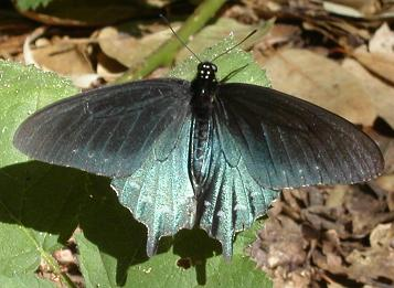 God made this, I took the picture. Taken at Lodi Lake in Lodi, CA